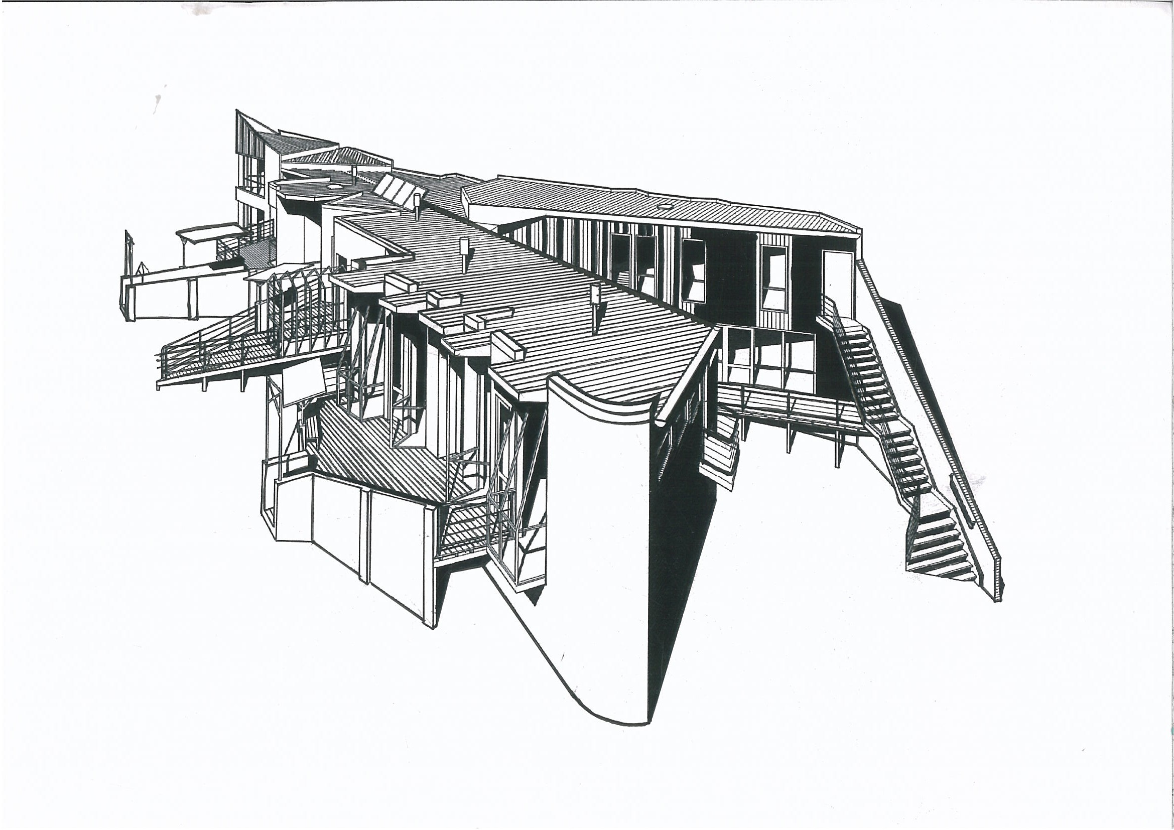 A perspective hand drawing of the Athan House by Edmond and Corrigan